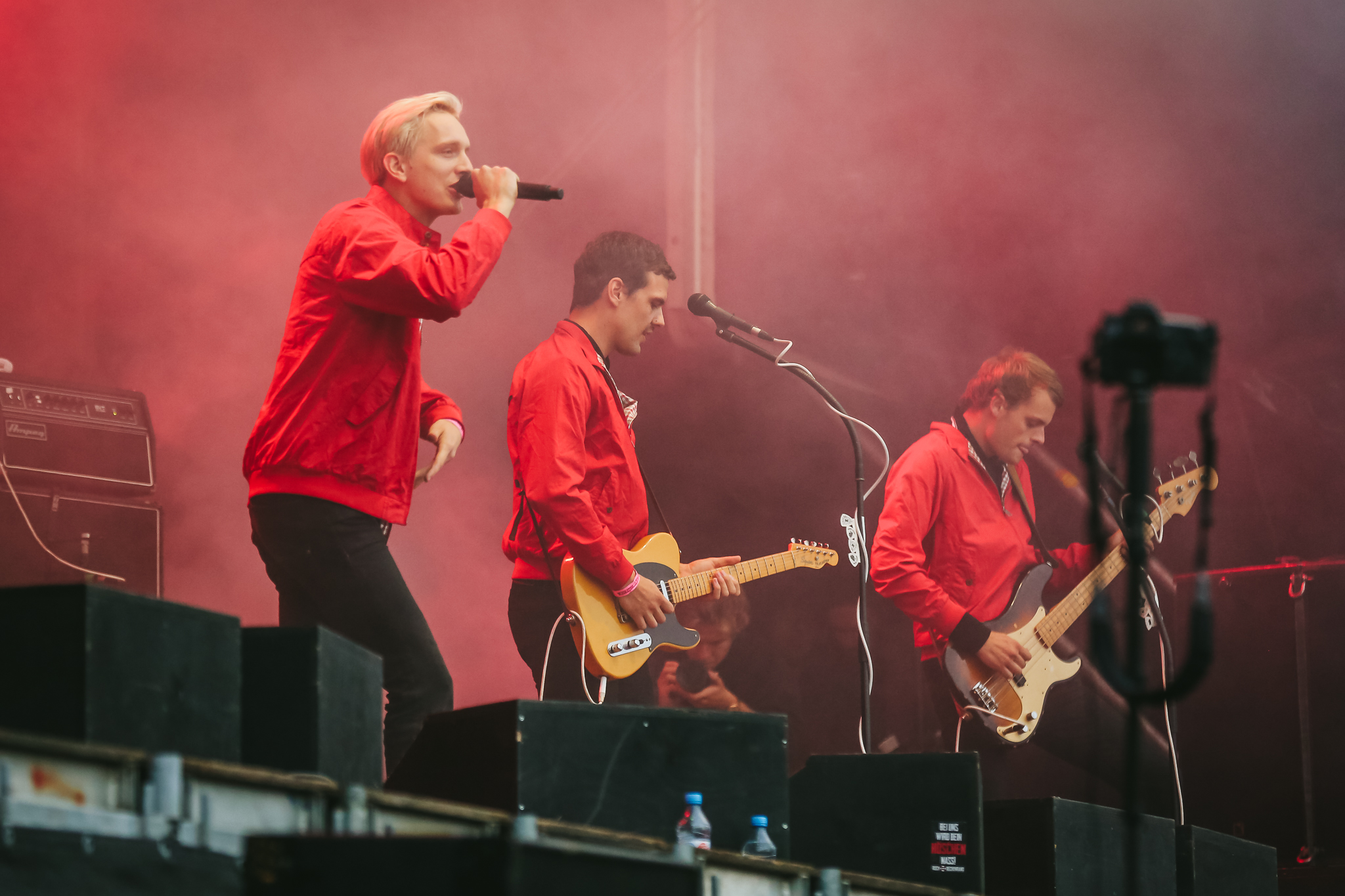 Kraftklub at Wir Sind Mehr Konzert - Chemnitz 2018